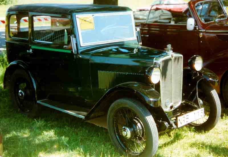 Morris Minor Saloon 1932